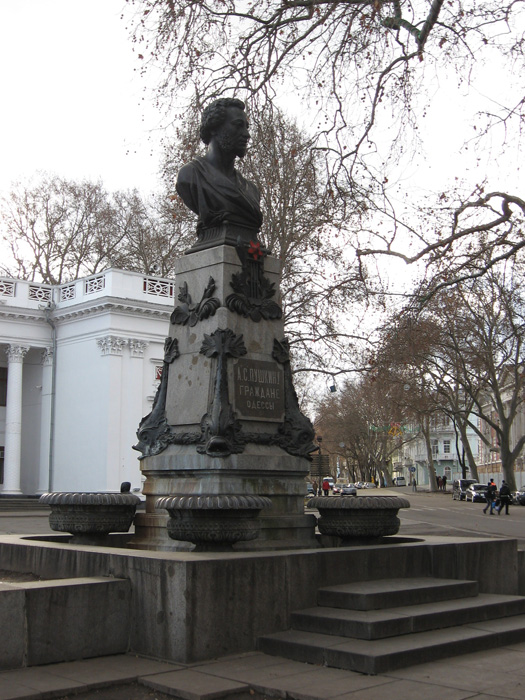 Monument to Alexander Pushkin in Odessa